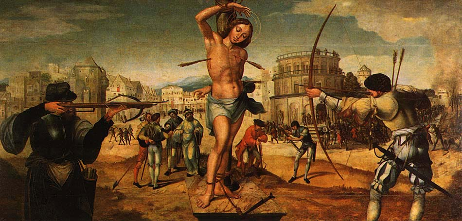 Martyrdom of St Sebastian